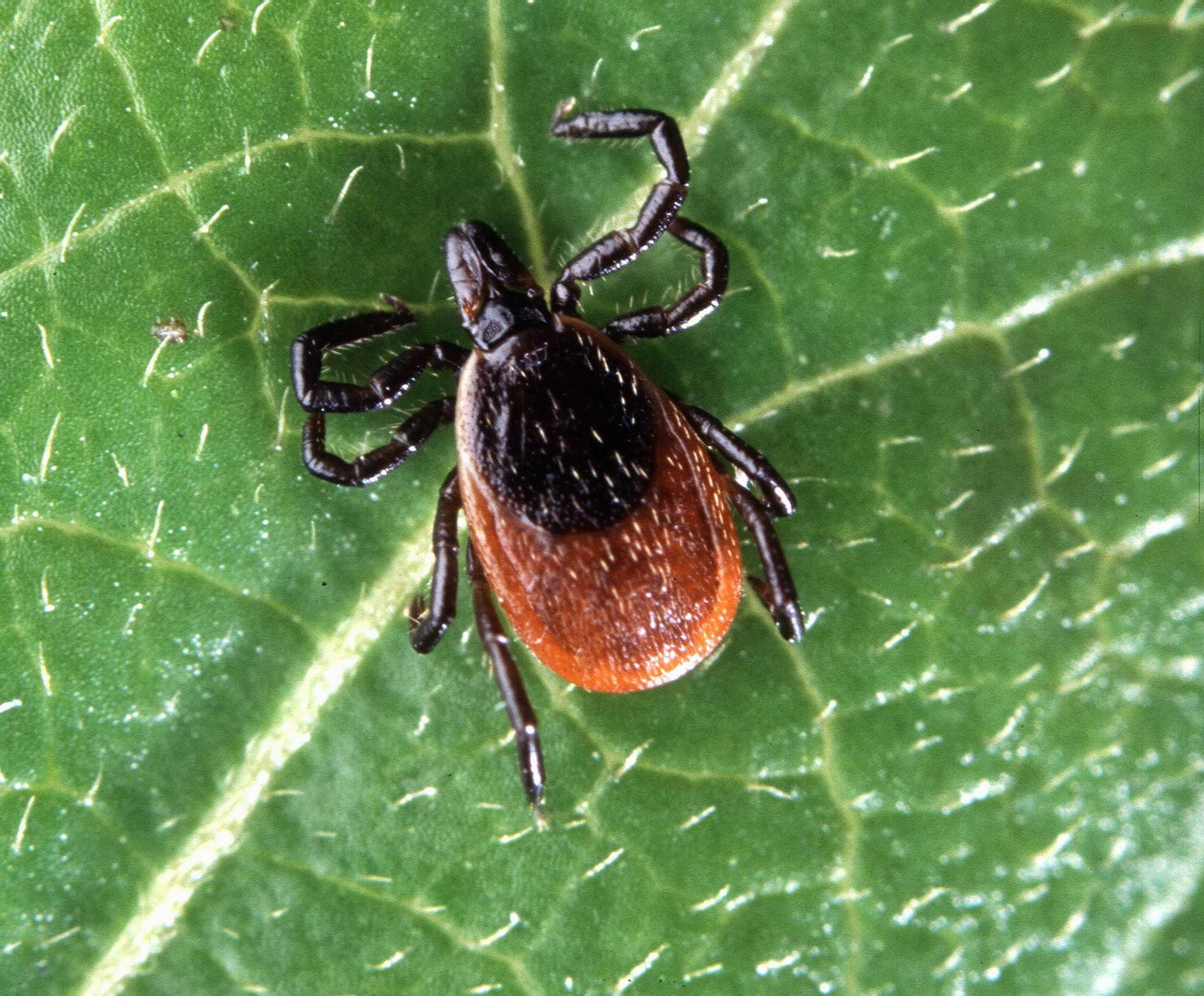 Image title: Not an insect, but a tick, Ixodes scapularis Image from Public domain images website